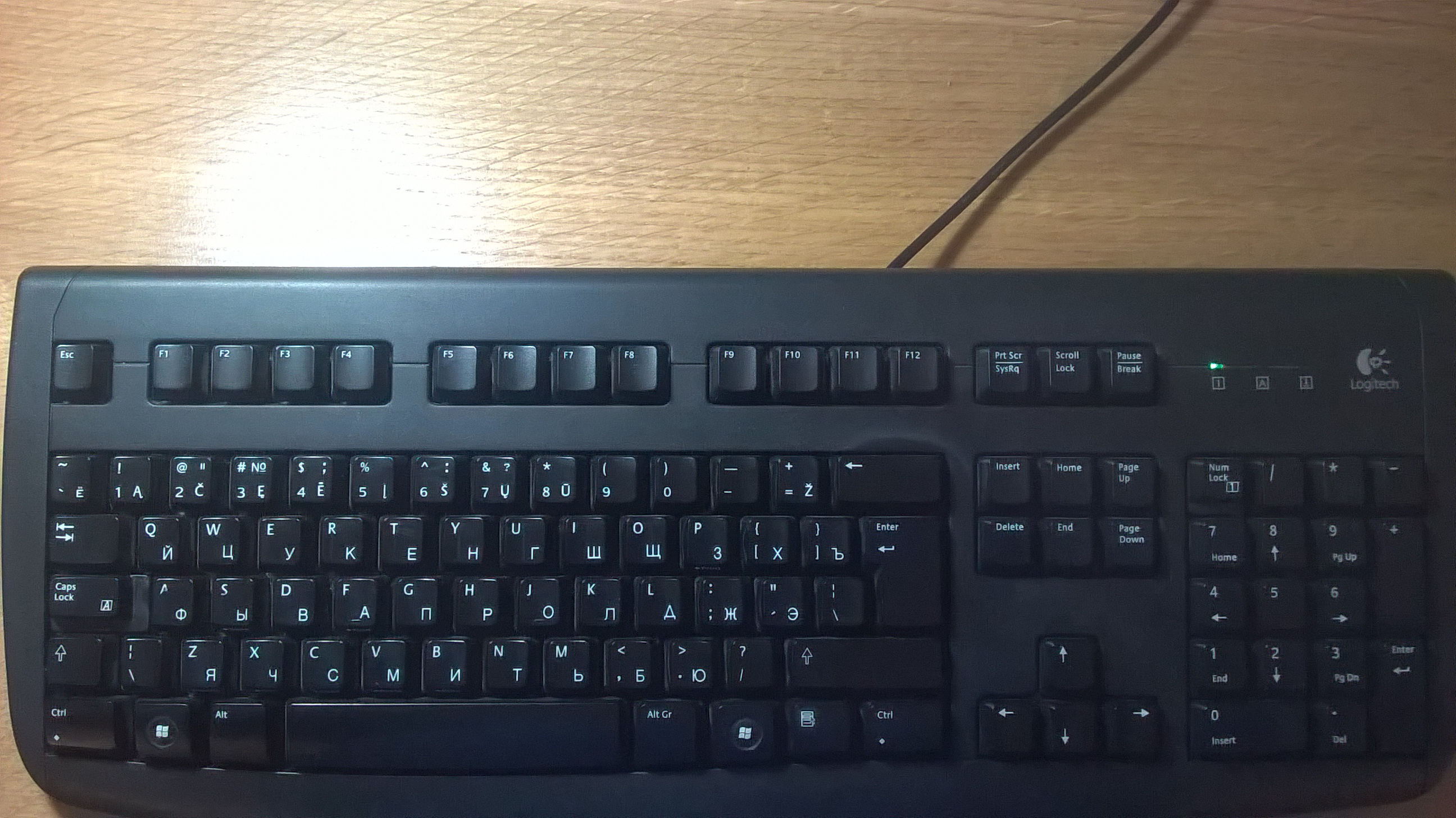 Keyboard with Russian, Lithuanian and Latin letters.